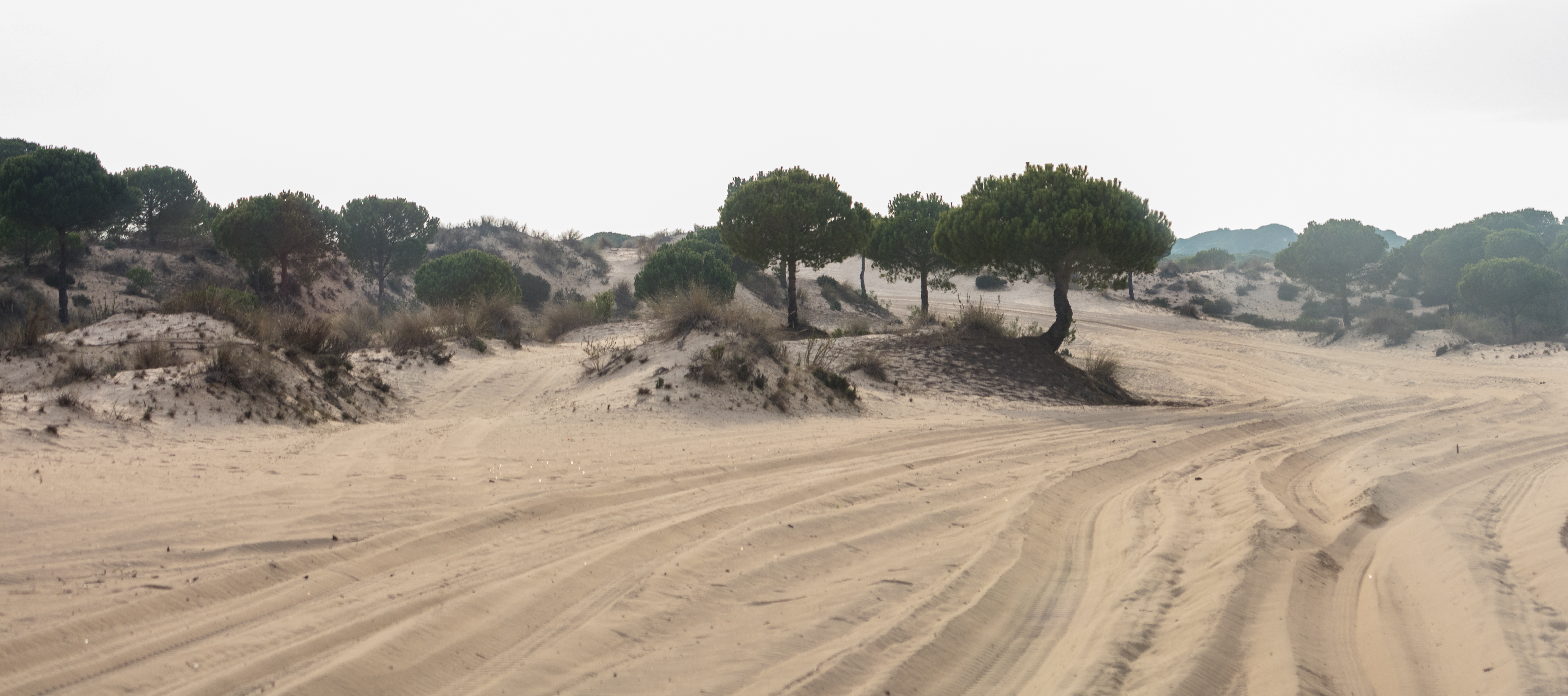 Landscape in Natural Park of Doñana, Huelva, Spain